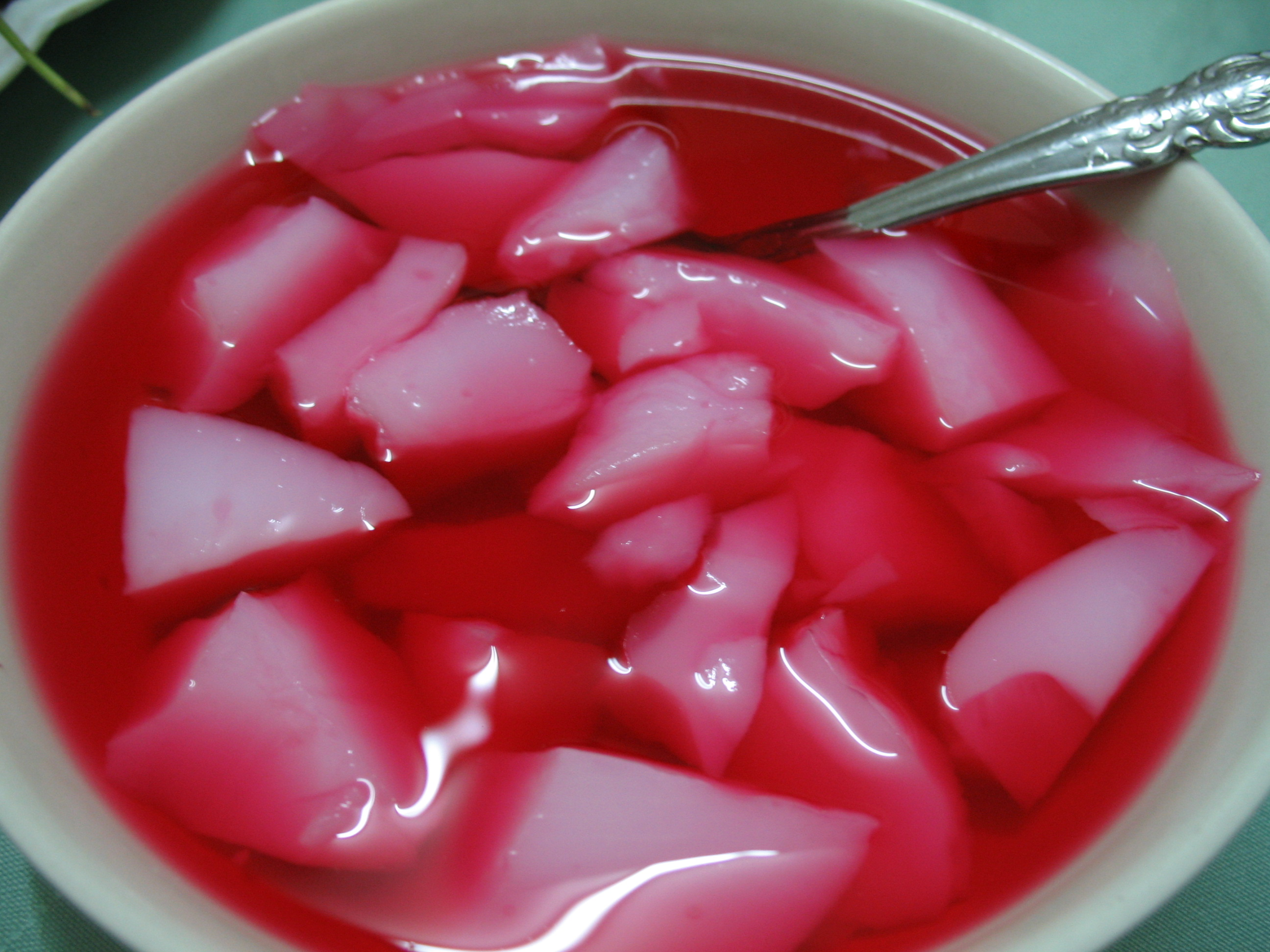 Mahallepi